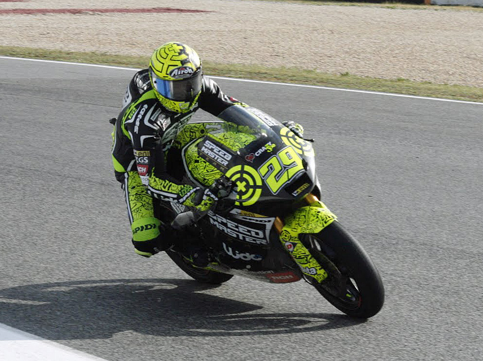 Andrea Iannone 2011 Estoril